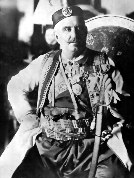 Photograph of Nicholas I of Montenegro